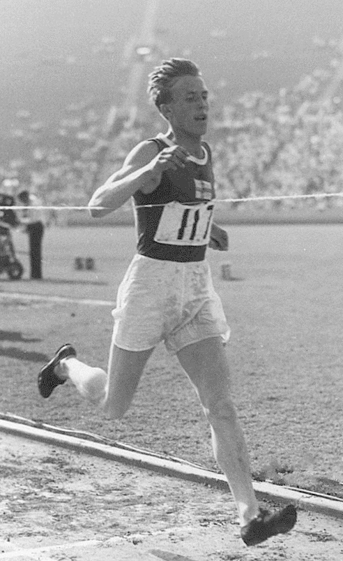 Volmari Iso-Hollo of Finland breaks through the finishing tape to win the gold medal in the 3000 metres Steeplechase event at the 1932 Olympic Games in the Coliseum Stadium, Los Angeles, USA. Iso-Hollo won with a time of 10:33.4 minutes